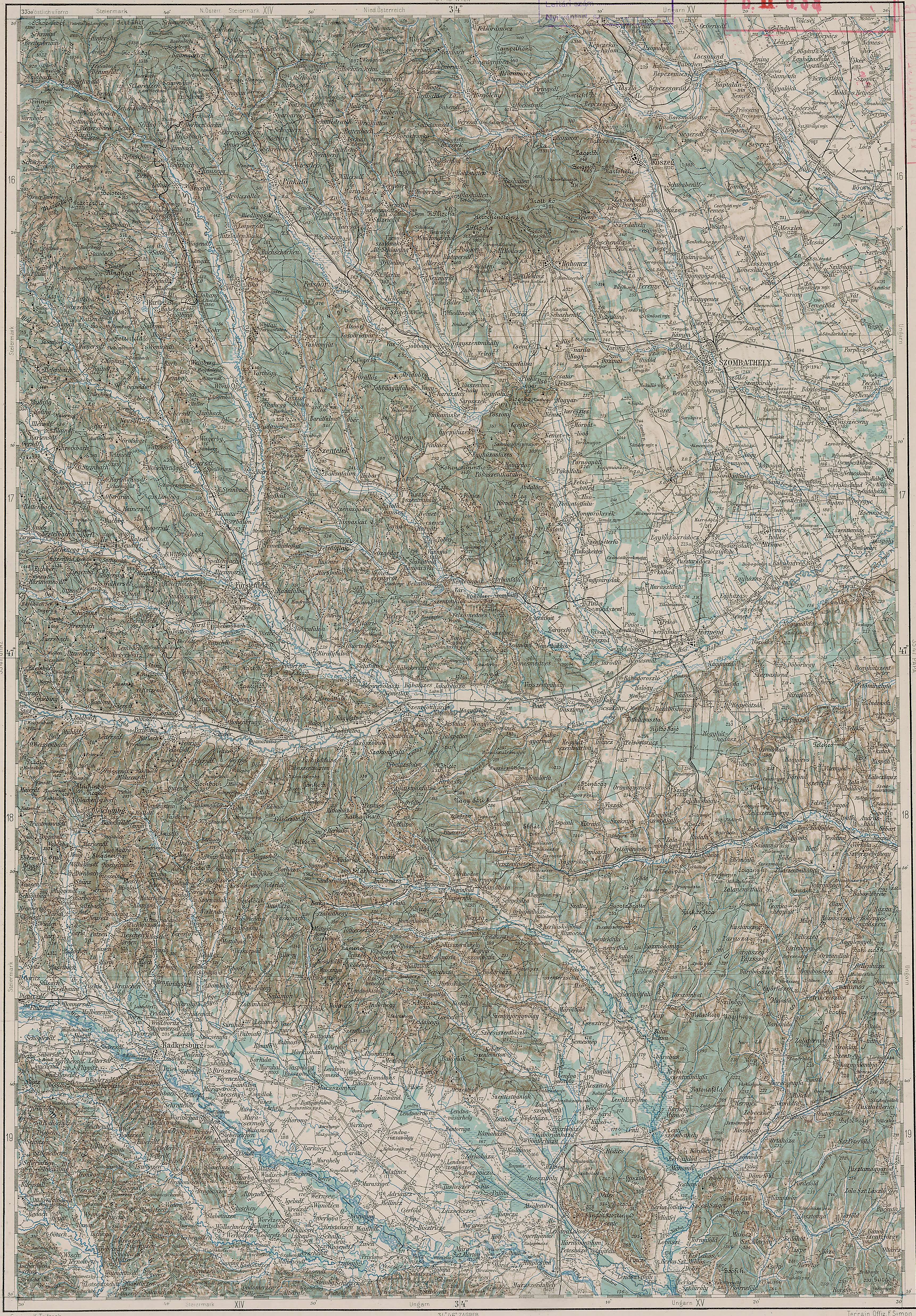 3rd Military Mapping Survey of Austria-Hungary - Szombathely